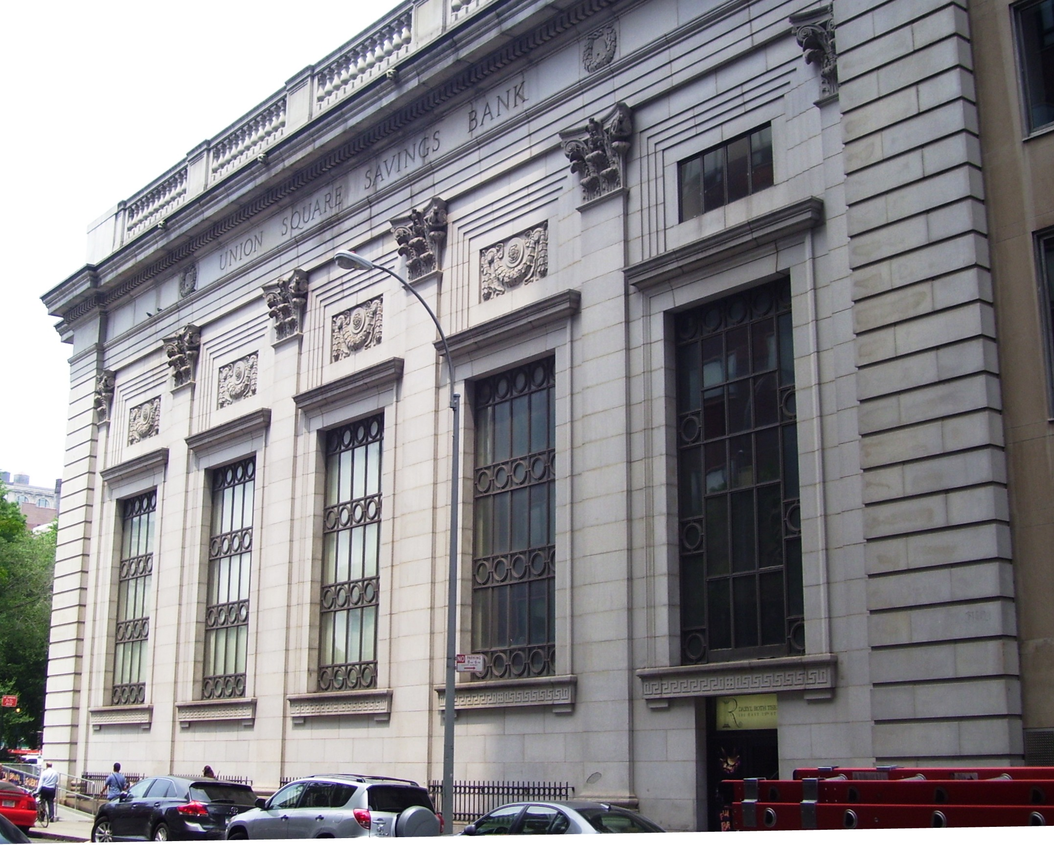 The Union Square Savings Bank builing, now the Daryl Roth Theatre, seen from the east, along East 15th Street, betweem Union Square East and Irving Place.